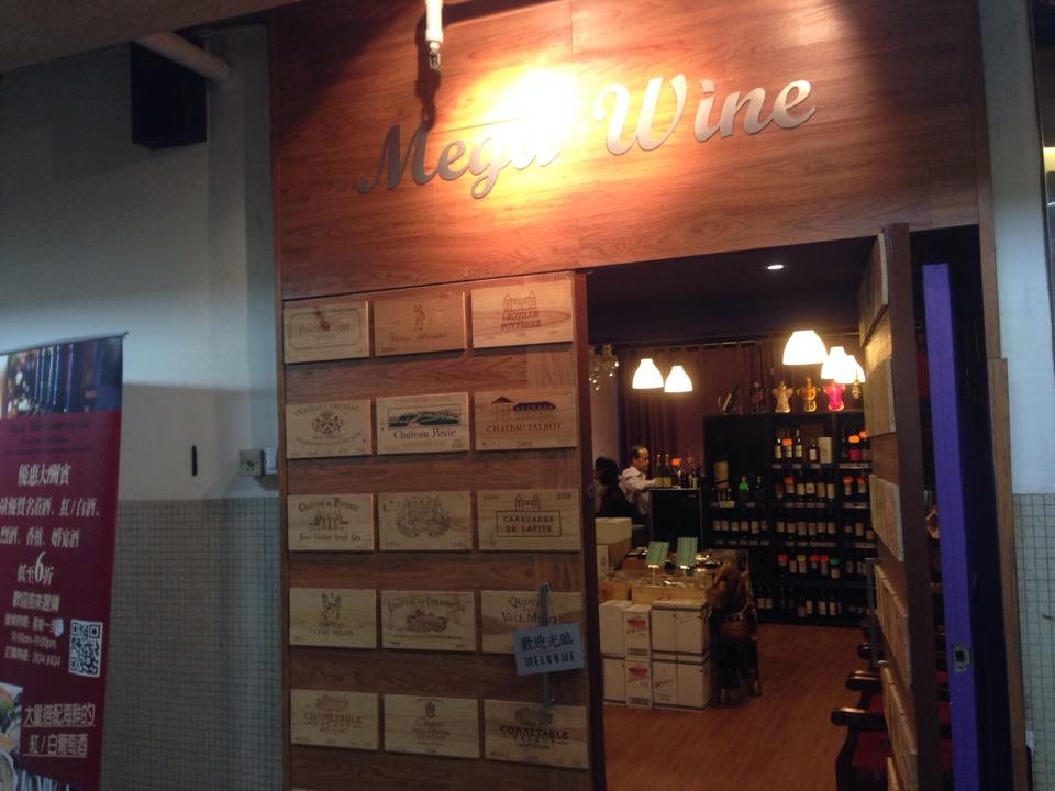 Red Wine shop in industrial building Location: Mega Wine Co Ltd. Flat I, 5/F, Block 3, Camelpaint Building, 60 Hoi Yuen Road, Kwun Tong, Kowloon